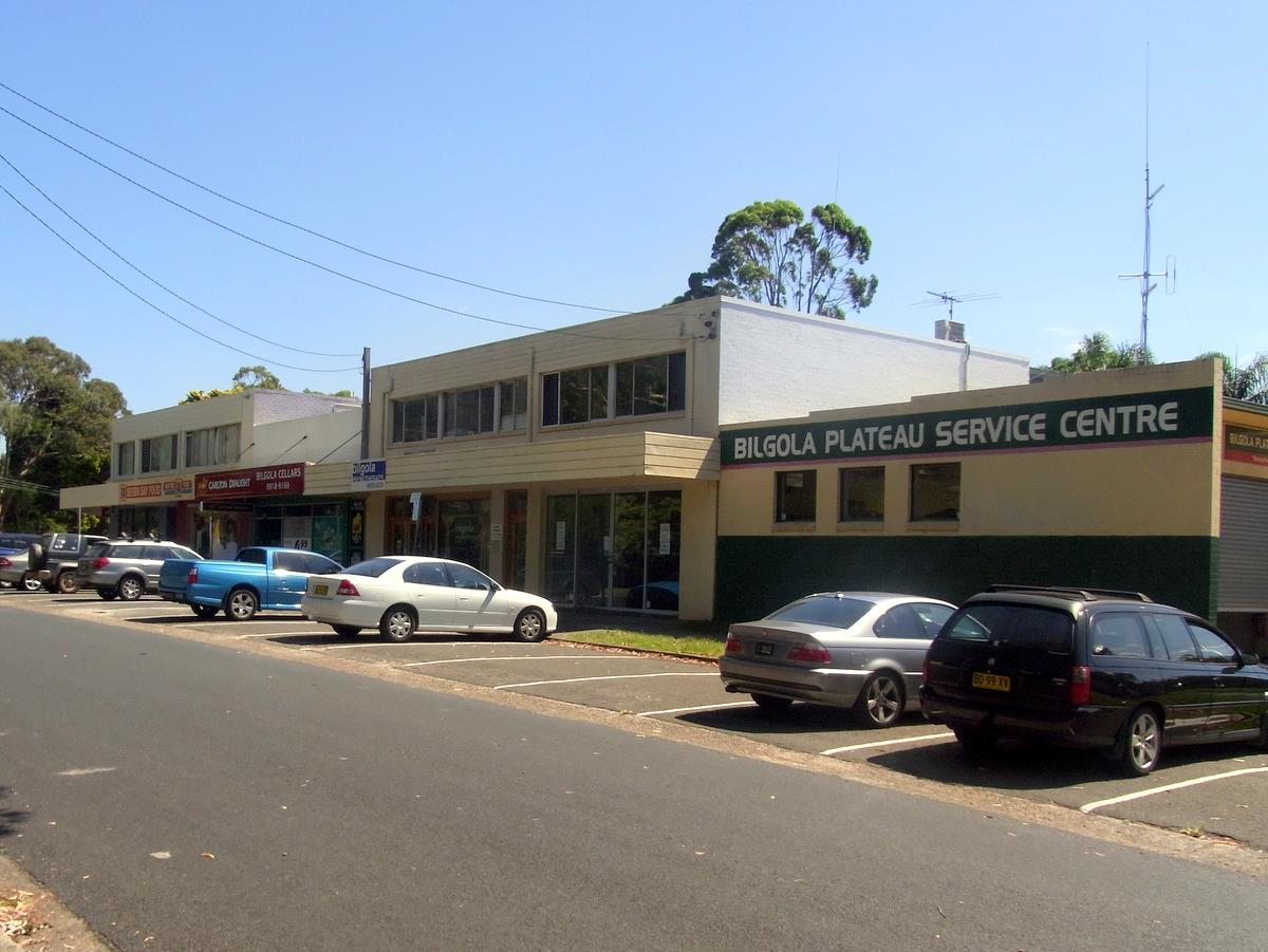 Bilgola Plateau, shops. NSW, Australia